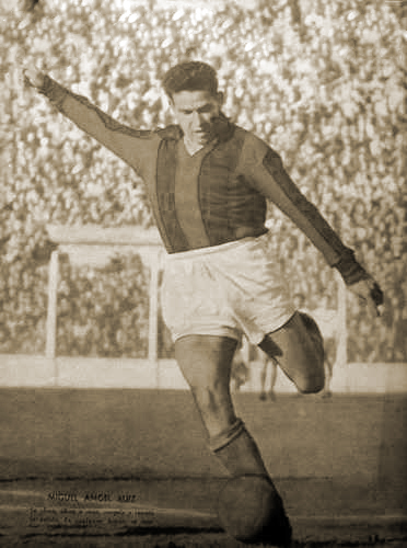 Imagen retocada de Miguel Angel Ruíz en 1959